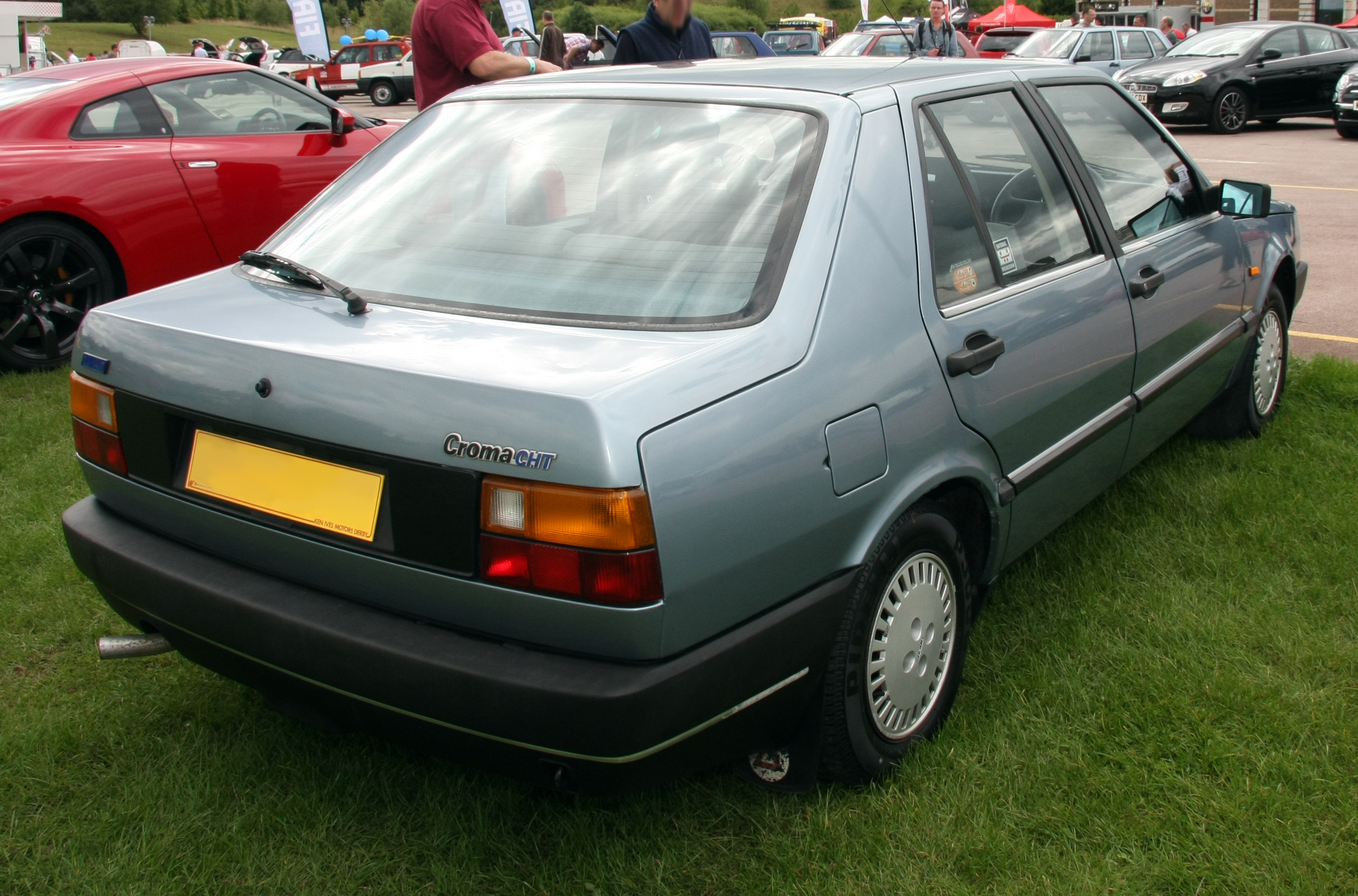 Rear view of 1987 Fiat Croma CHT, cheapo version with all-black bumpers and 90hp engine. Seen at AutoItalia Autumn Italian Car Day Heritage Motor Centre, Gaydon 2010